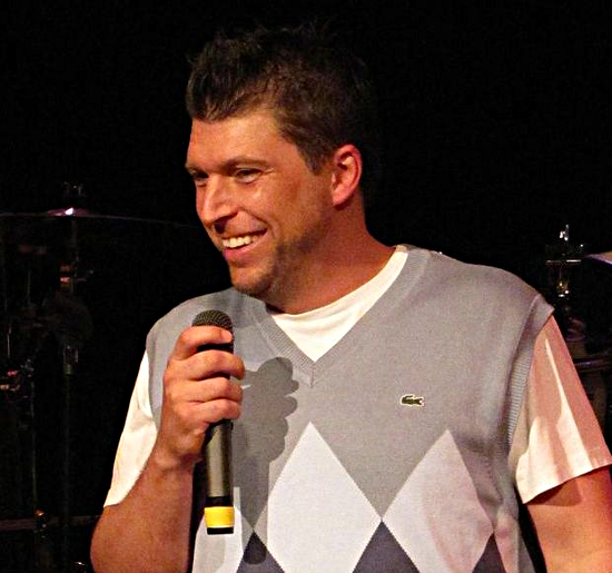 Comedian and WMMS radio personality Chad Zumock at The Tangier in Akron, Ohio, United States